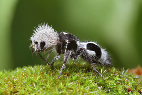 The panda ant (Euspinolia militaris) is a species of hymenoptera insect from the Mutillidae family. Despite looking like an ant and being referred as such, it is in fact a form of wingless wasp.